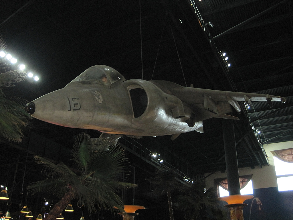 Hollywood Memorabilia Exhibit at the Hollywood Casino in Tunica, Mississippi. Fighter jet from the movie "True Lies"